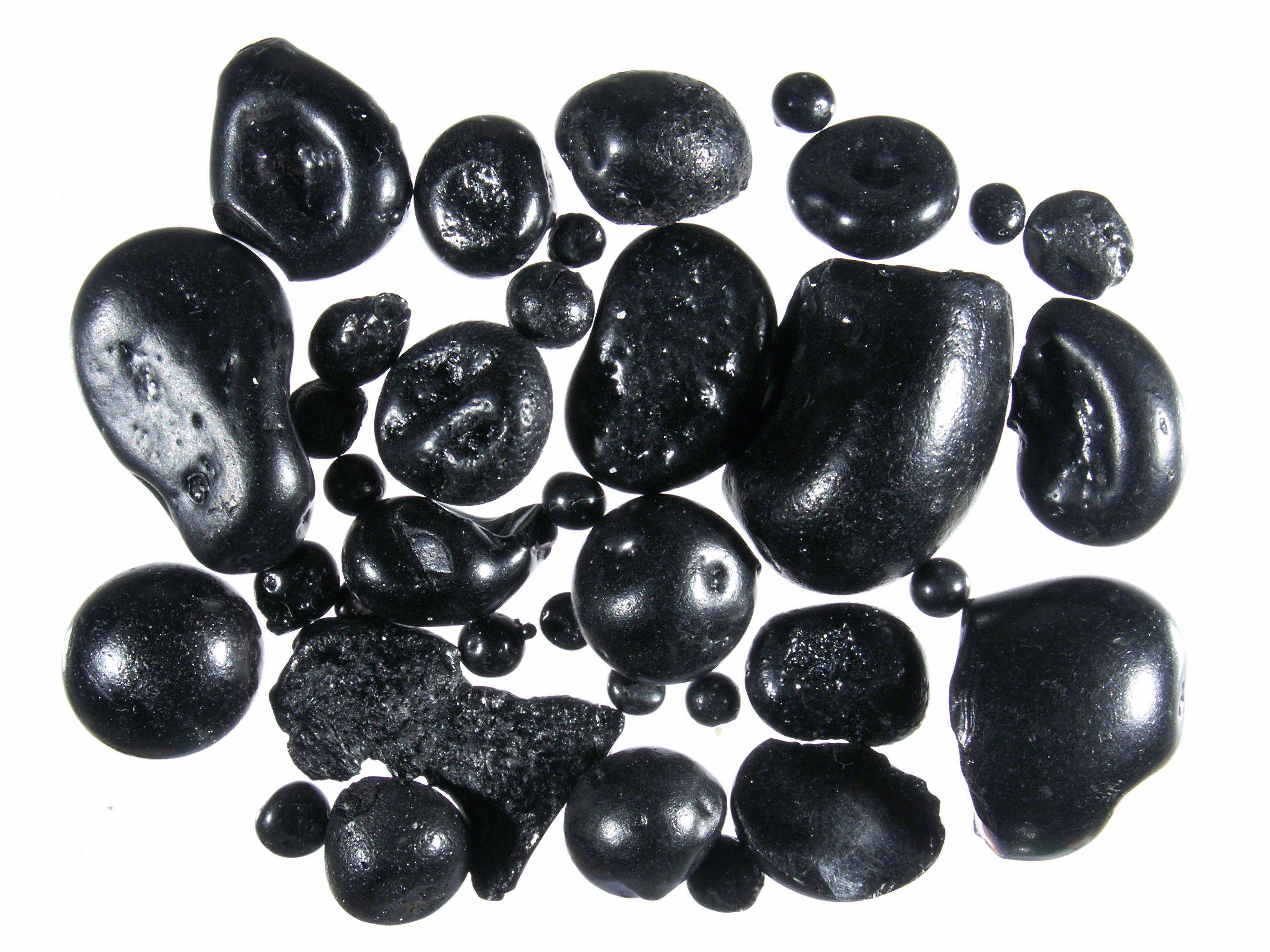 Amber from Bitterfeld, stantienite